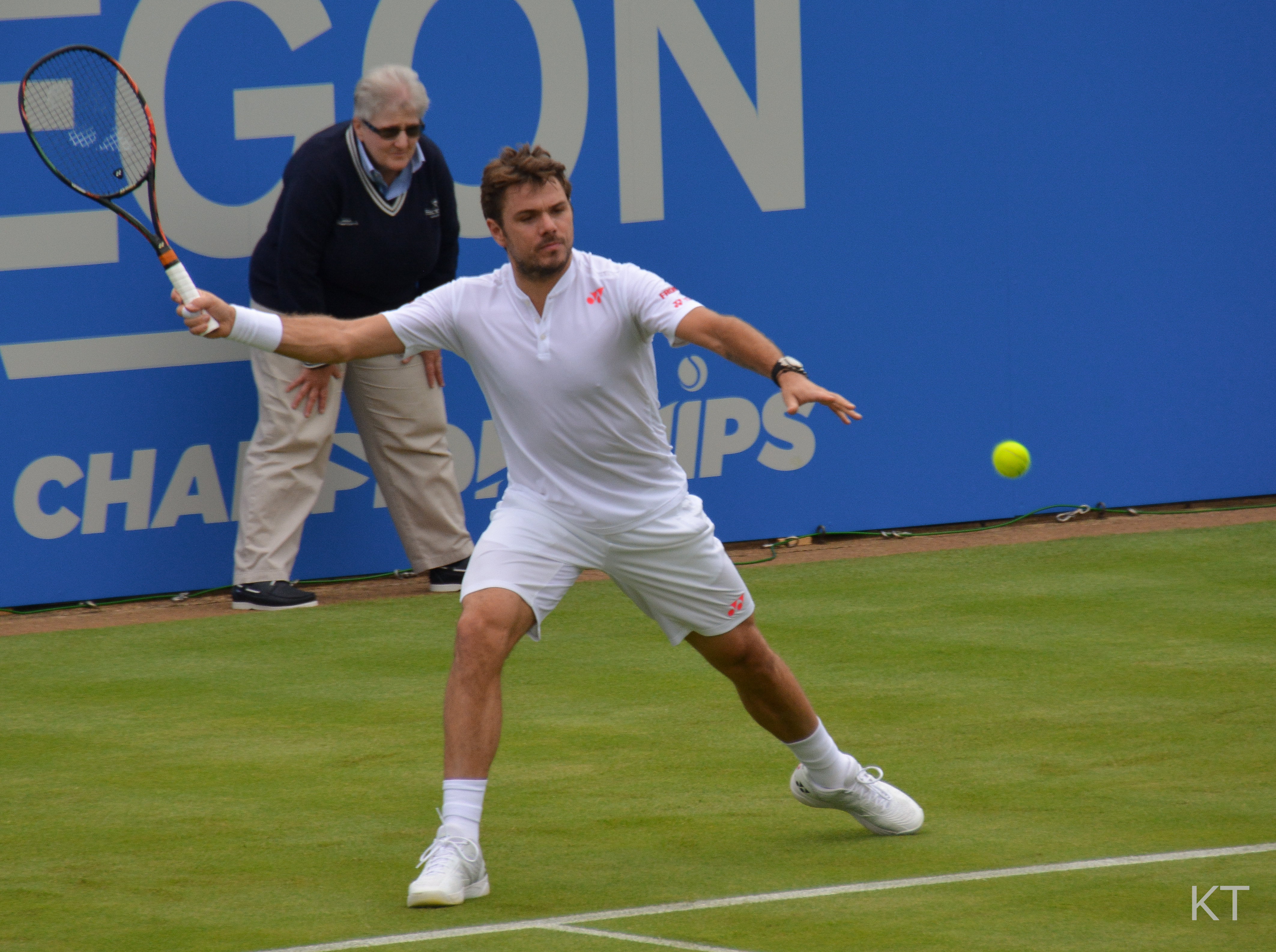 Stan Wawrinka v Fernando Verdasco in R1 at the Aegon Championships 2016. Verdasco won 6-2, 7-6.